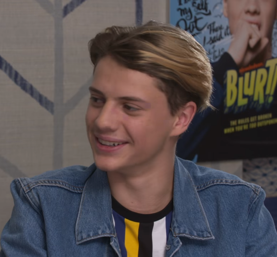 Does Blurt! And Henry Danger star Jace Norman know his Peng Tings from his Worldies? Apparently not, as we find out when we play a game of Slanguage with the Nickelodeon star!